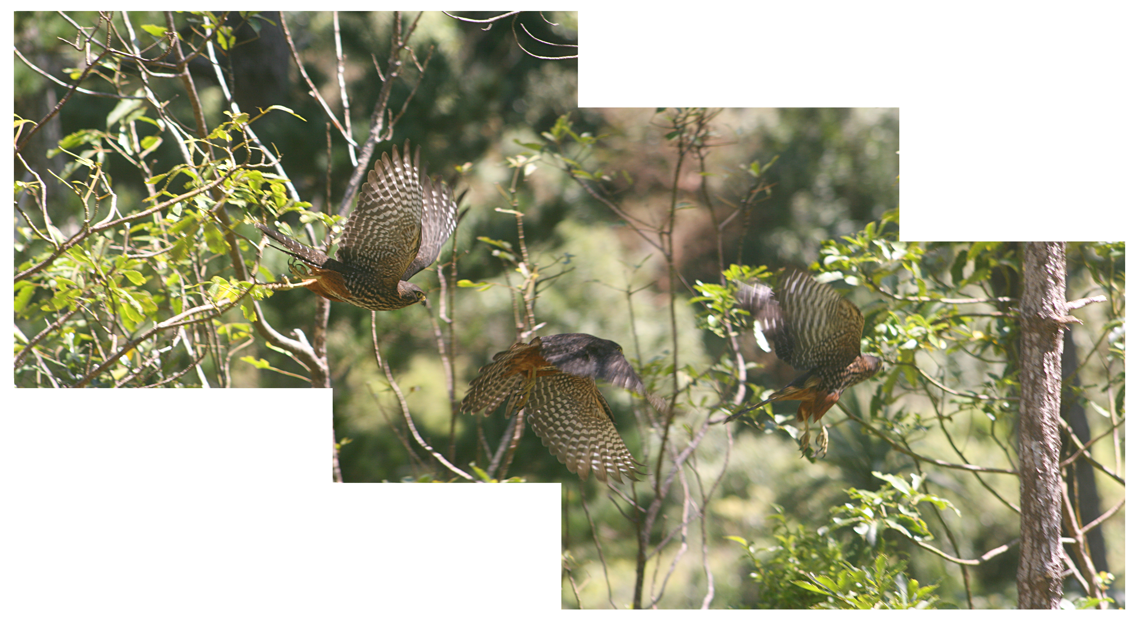 The New Zealand Falcon in flight, composite image using Hugin, of three frames approx 0.2 seconds apart. Zealandia wildlife sanctuary. Wellington, New Zealand. The Canon 20D max frame rate is about 5 fps so these images a spaced approximately 0.2 seconds apart. Māori: Kārearea